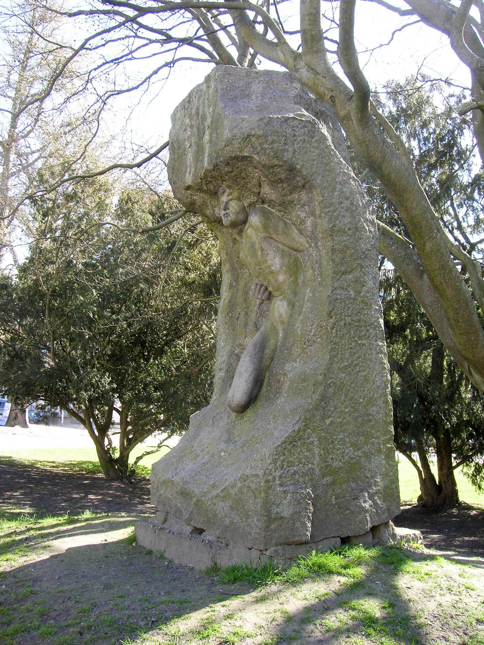 Mannen som bryter sig ur klippan, sculpture in Lund, Scania, Sweden.